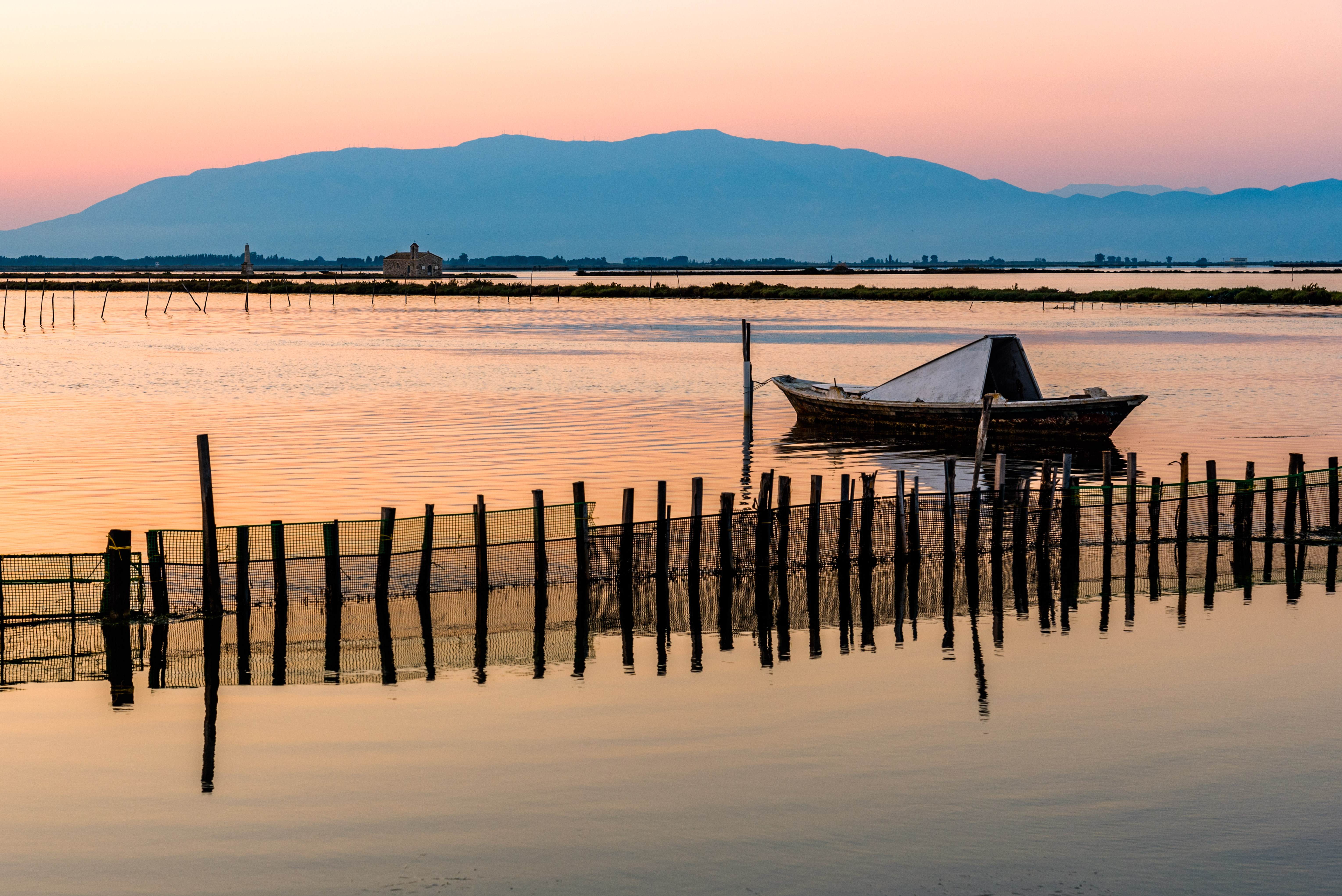 This is a photography of Natura 2000 protected area with ID GR2310001